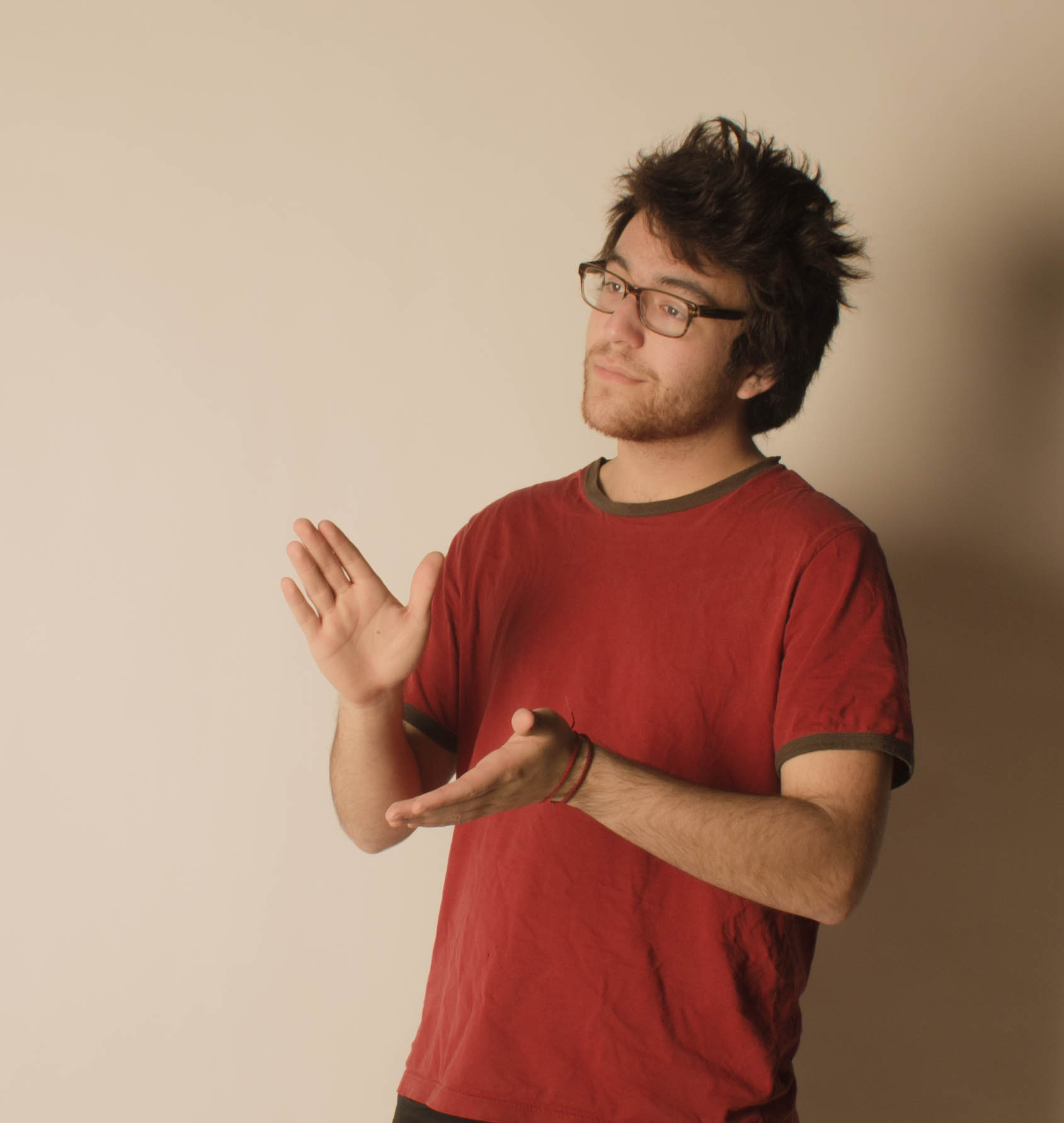 A photograph of a young man clapping